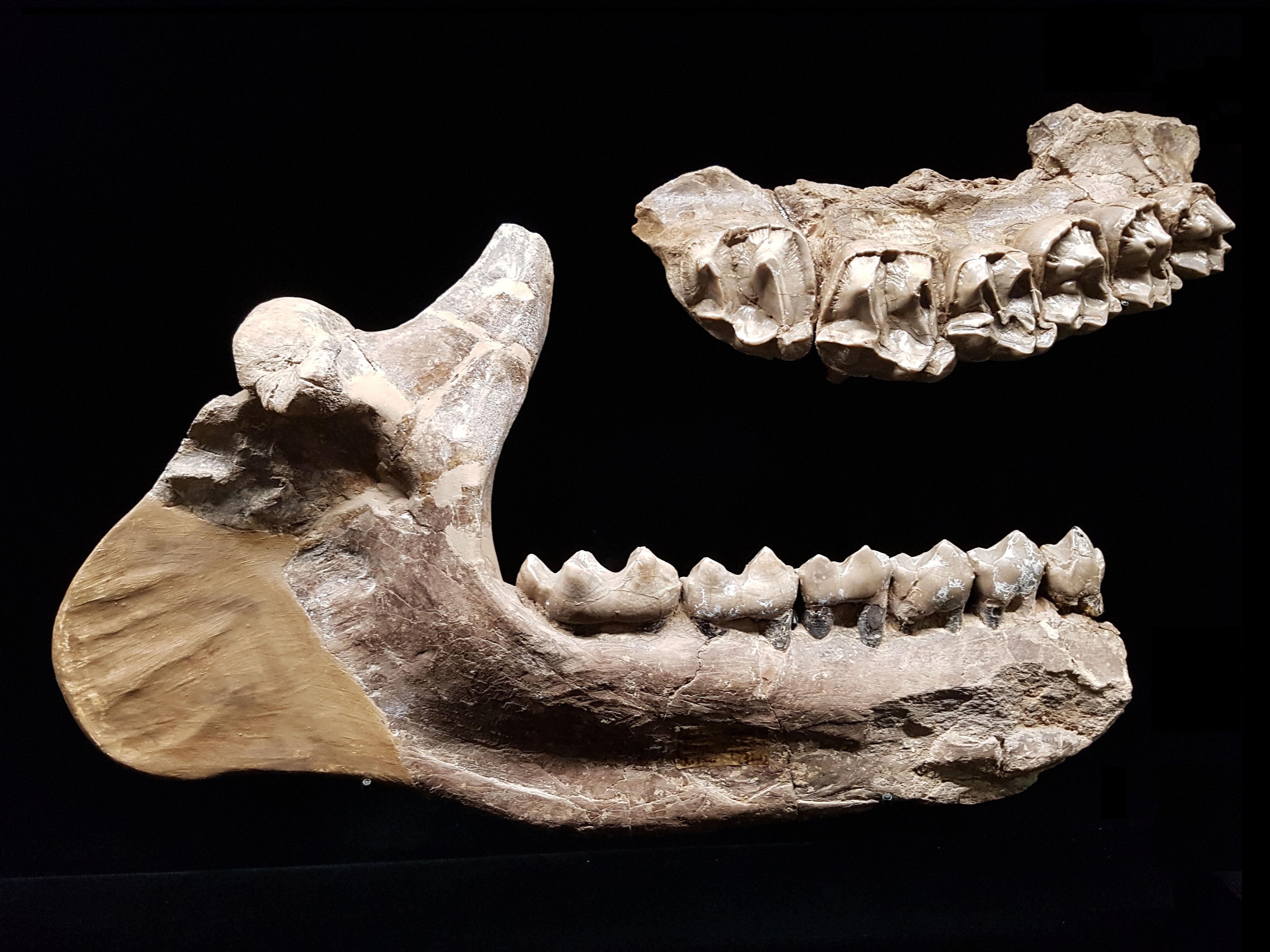 Mandible and maxilla of Lophiodon from Robiac in the Exhibition "Climate Powers - Driving Force of Evolution" in the State Museum of Prehistory in Halle/Saale, Germany